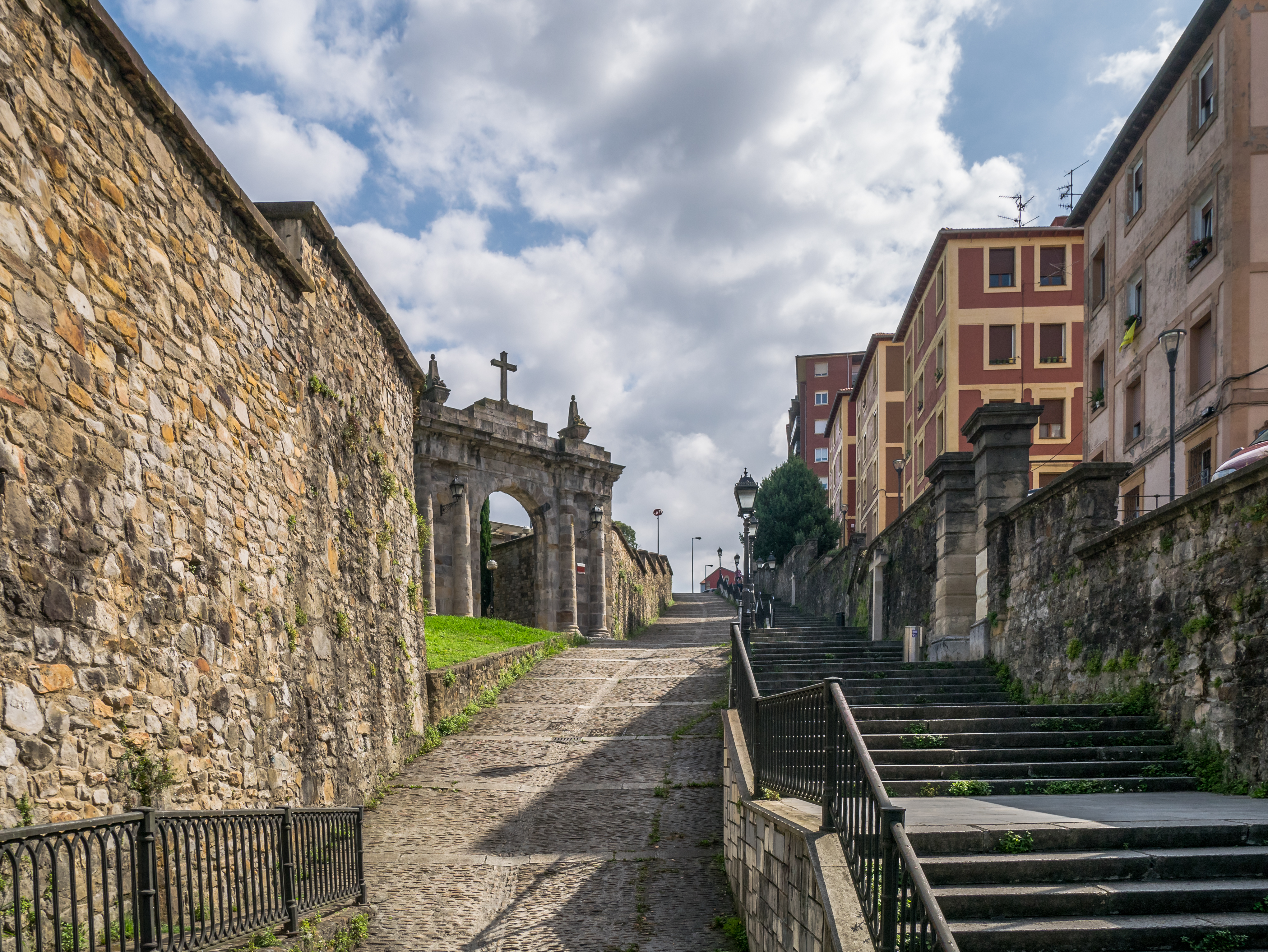 Footway "Calzadas de Mallona" in Bilbao, Biscay, Basque Country, Spain